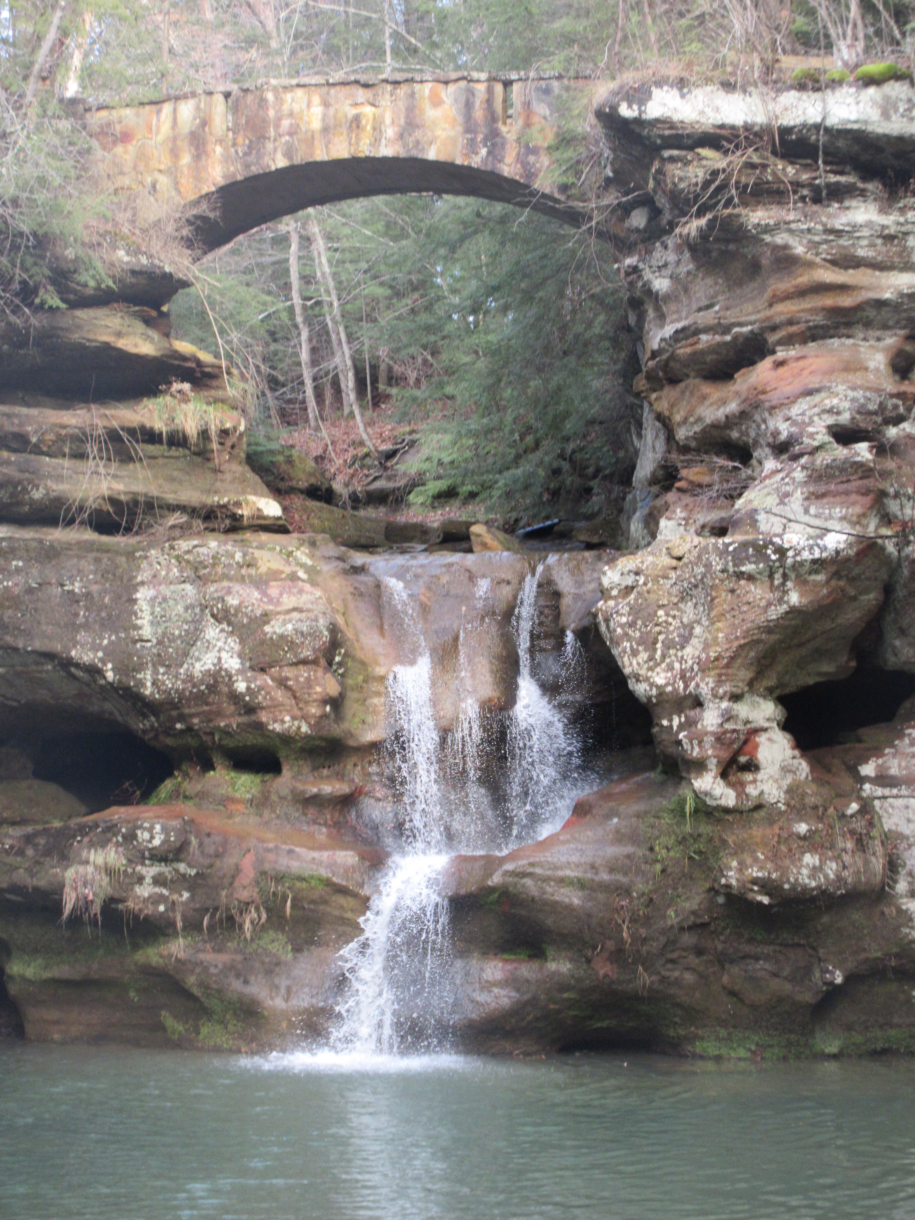 Taken 12-26-2016.